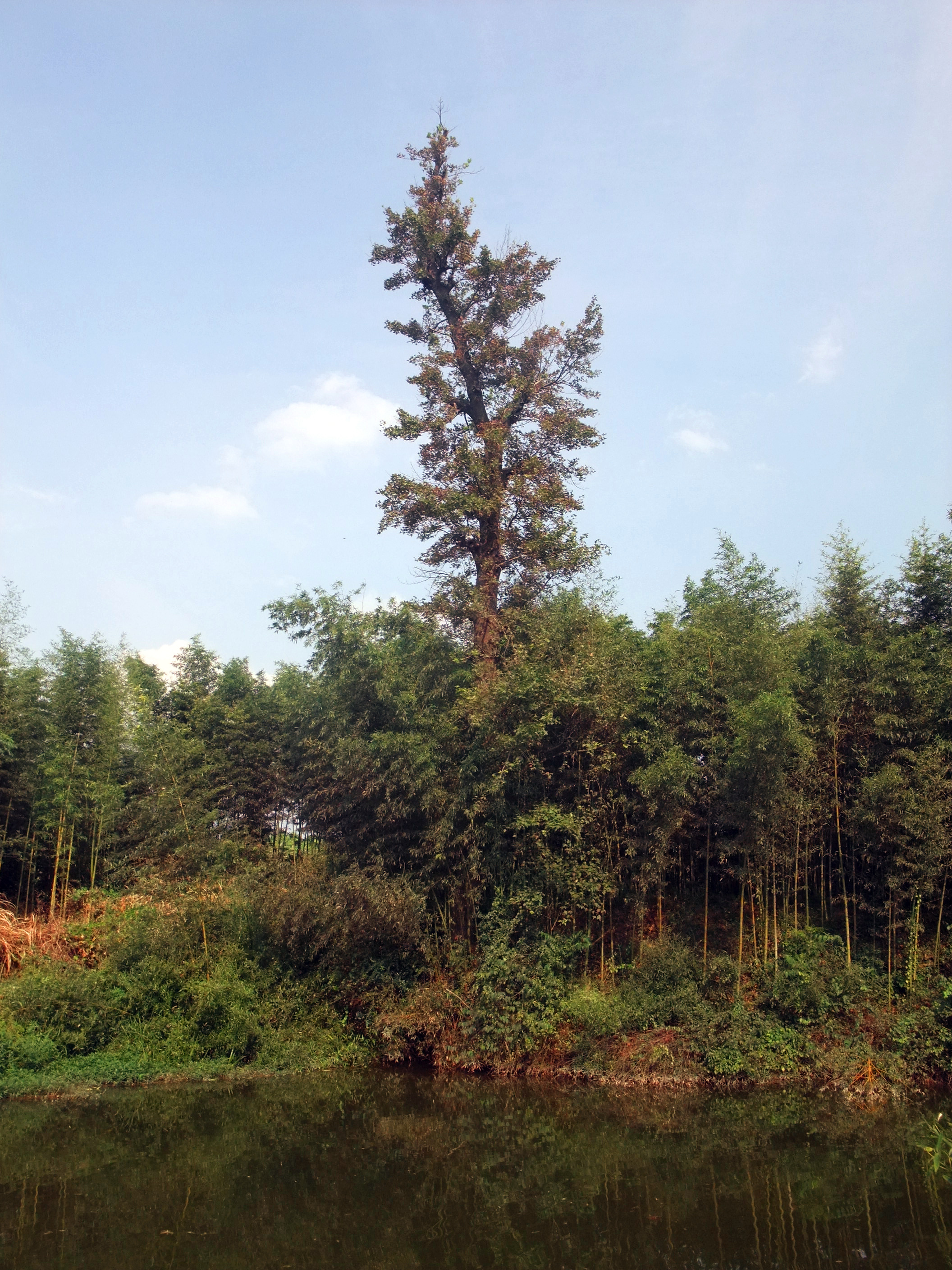 Liquidambar formosana in Guangde county, Anhui, China. Supporting information: File:Liquidambar formosana1.jpg